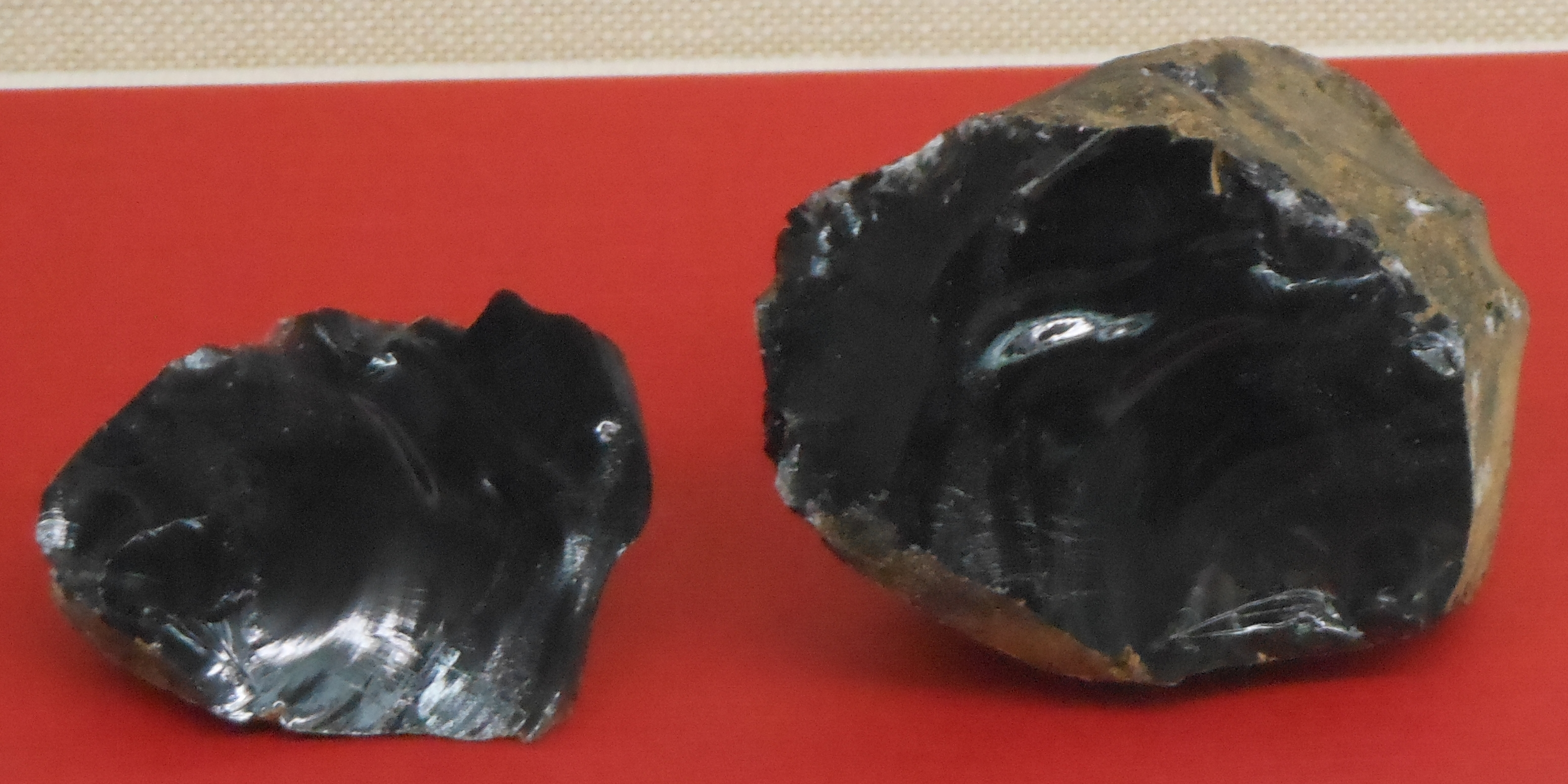 Obsidian stones, taken from Mount Koshidake in Imari city, Saga prefecture, Japan. Display:Saga Prefectural Museum